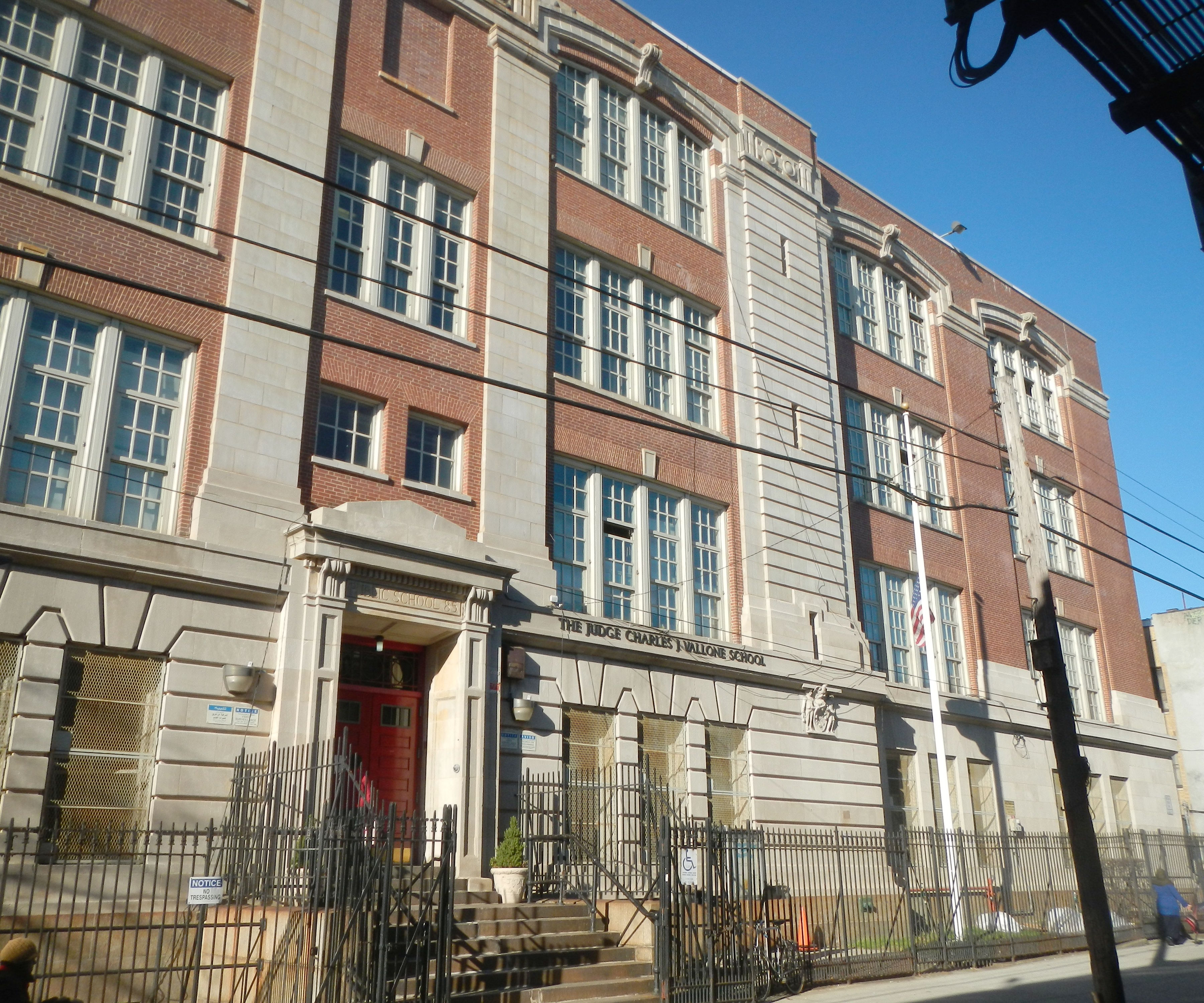 Looking north at school on a sunny day.